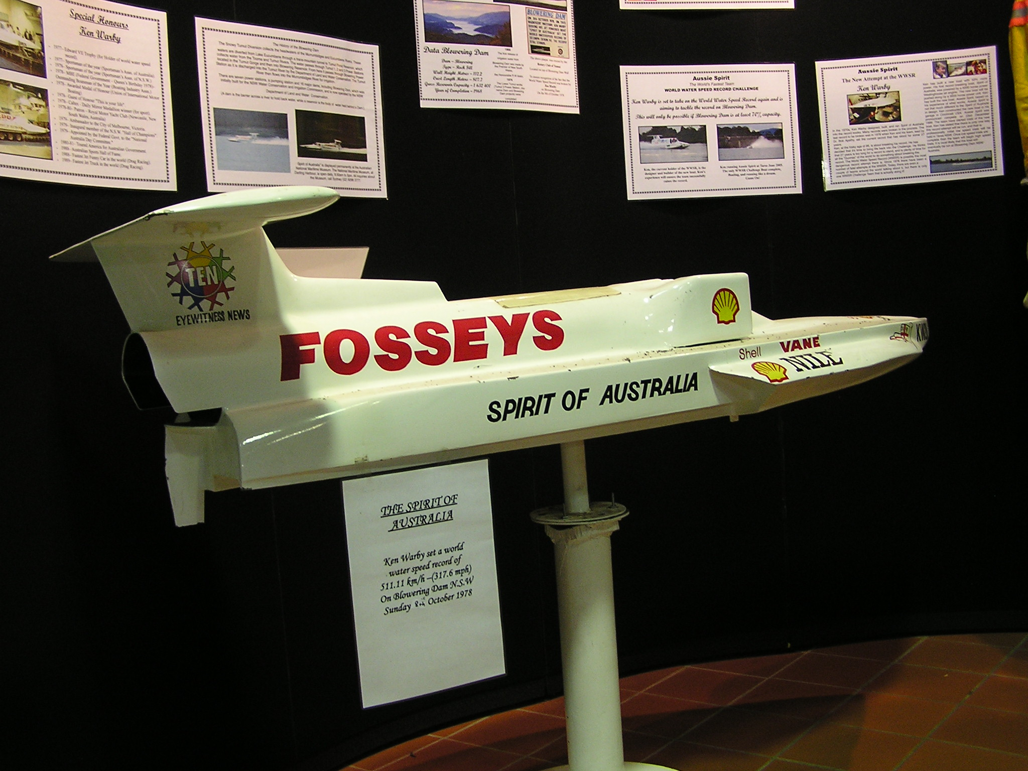 Model of the "Spirit of Australia", used by Ken Warby to set the world water speed record on Blowering Dam New South Wales, Australia in 1978 - photographed in Tumut, New South Wales. Picture taken by AYArktos